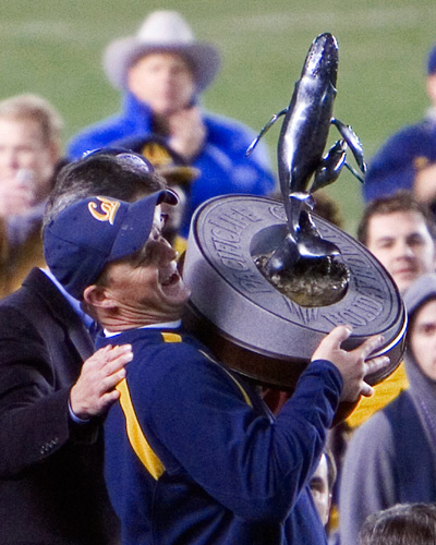 California Golden Bears Football Coach Jeff Tedford lifts the 2006 Holiday Bowl Trophy. I own the site, I own the image, and I took the photograph. I release the use of the image under the GFDL. Cgb78 talk 13:53, 30 September 2007 I took the original photograph and own the copyright. In addition, I am the adminstrator of the website and release the photograph for use.